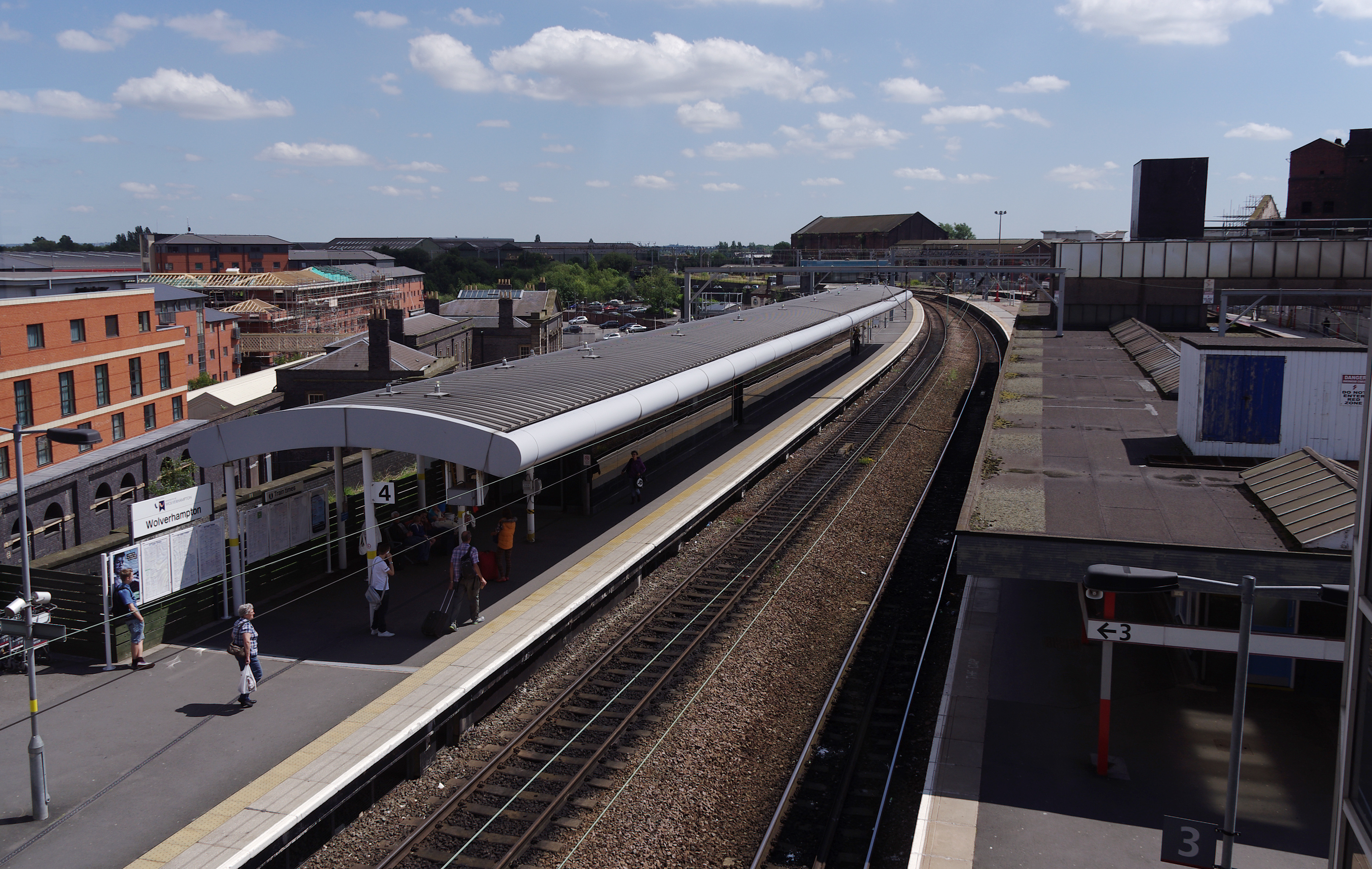 Wolverhampton railway station, looking south.